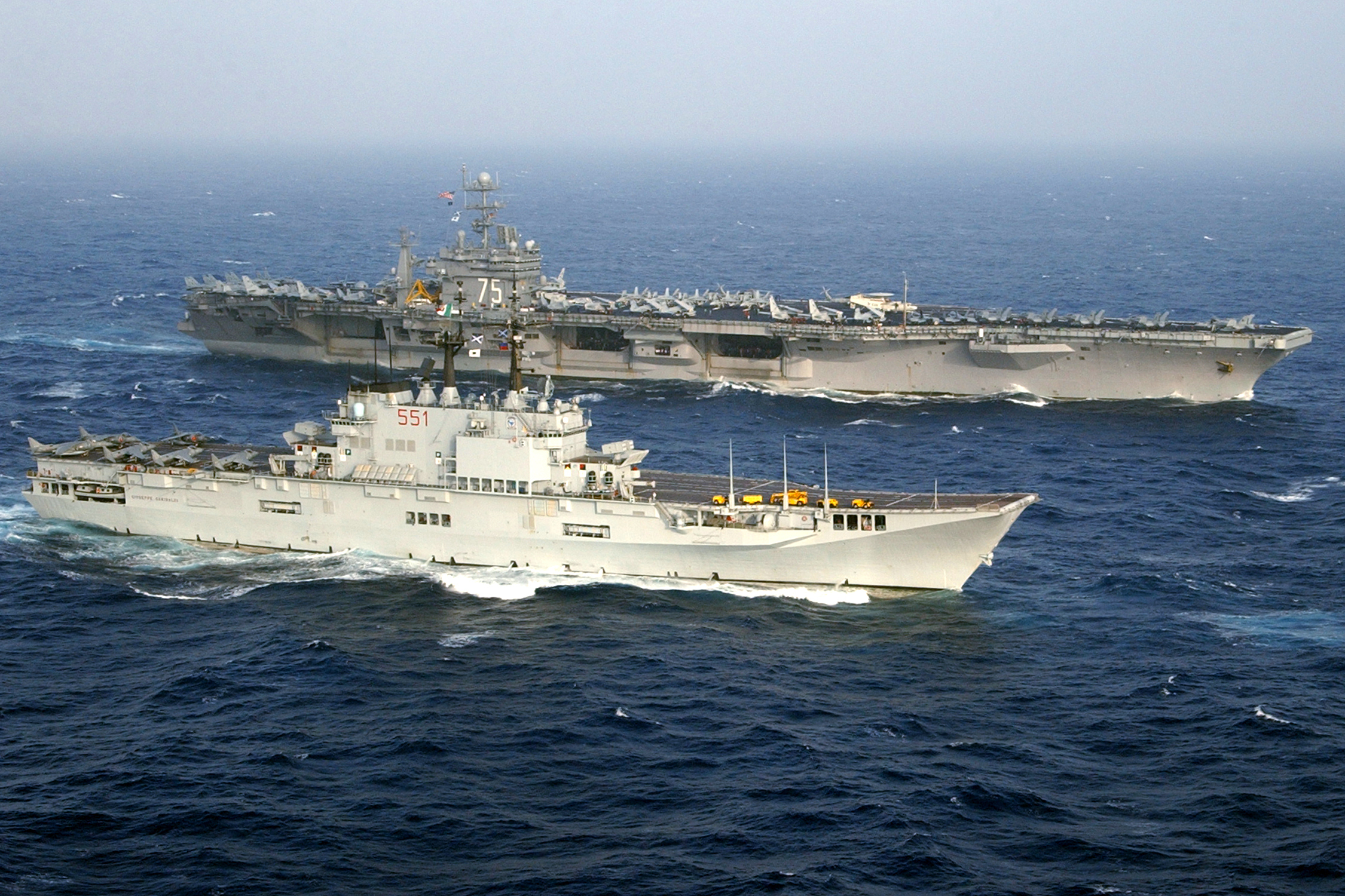 040712-N-7748K-020 North Atlantic Ocean (July 12, 2004) - USS Harry S. Truman (CVN 75) and the Italian aircraft carrier ITS Giuseppe Garibaldi (C 551) operate near each other in the Atlantic Ocean while participating in Majestic Eagle 2004. Majestic Eagle is a multinational exercise being conducted off the coast of Morocco. The exercise demonstrates the combined force capabilities and quick response times of the participating naval, air, undersea and surface warfare groups. Countries involved in the NATO led exercise include the United Kingdom, Morocco, France, Italy, Portugal, Spain, and Turkey. Truman's participation in Majestic Eagle is part of her scheduled deployment supporting the Navy's new fleet response plan (FRP) Summer Pulse 2004, the simultaneous deployment of seven carrier strike groups (CSGs), demonstrating the ability of the Navy to provide credible combat across the globe, in five theaters with other U.S., allied, and coalition military forces. U.S. Navy photo by Photographer's Mate Airman Josh Kinter.